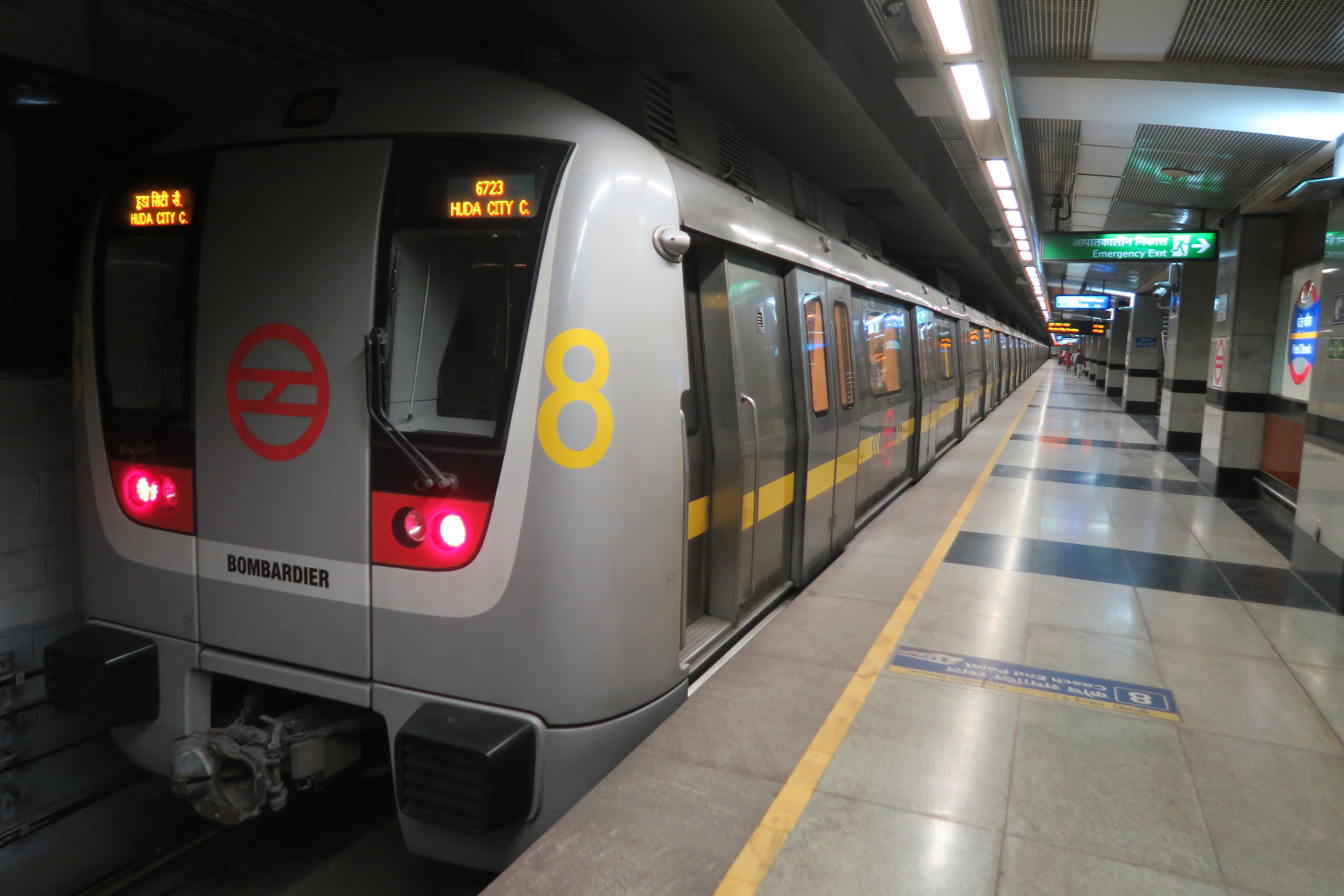 Coaches of Delhi Metro yellow line manifuctured by Bombardier.